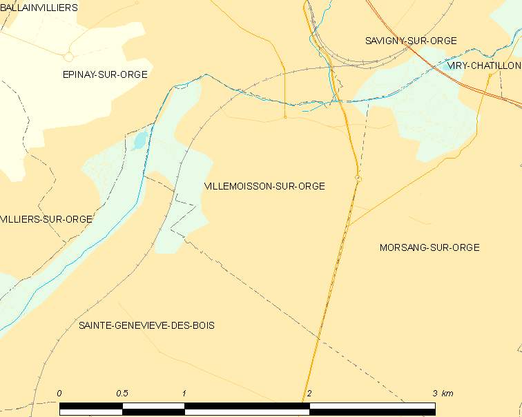 Map of French municipality Villemoisson-sur-Orge